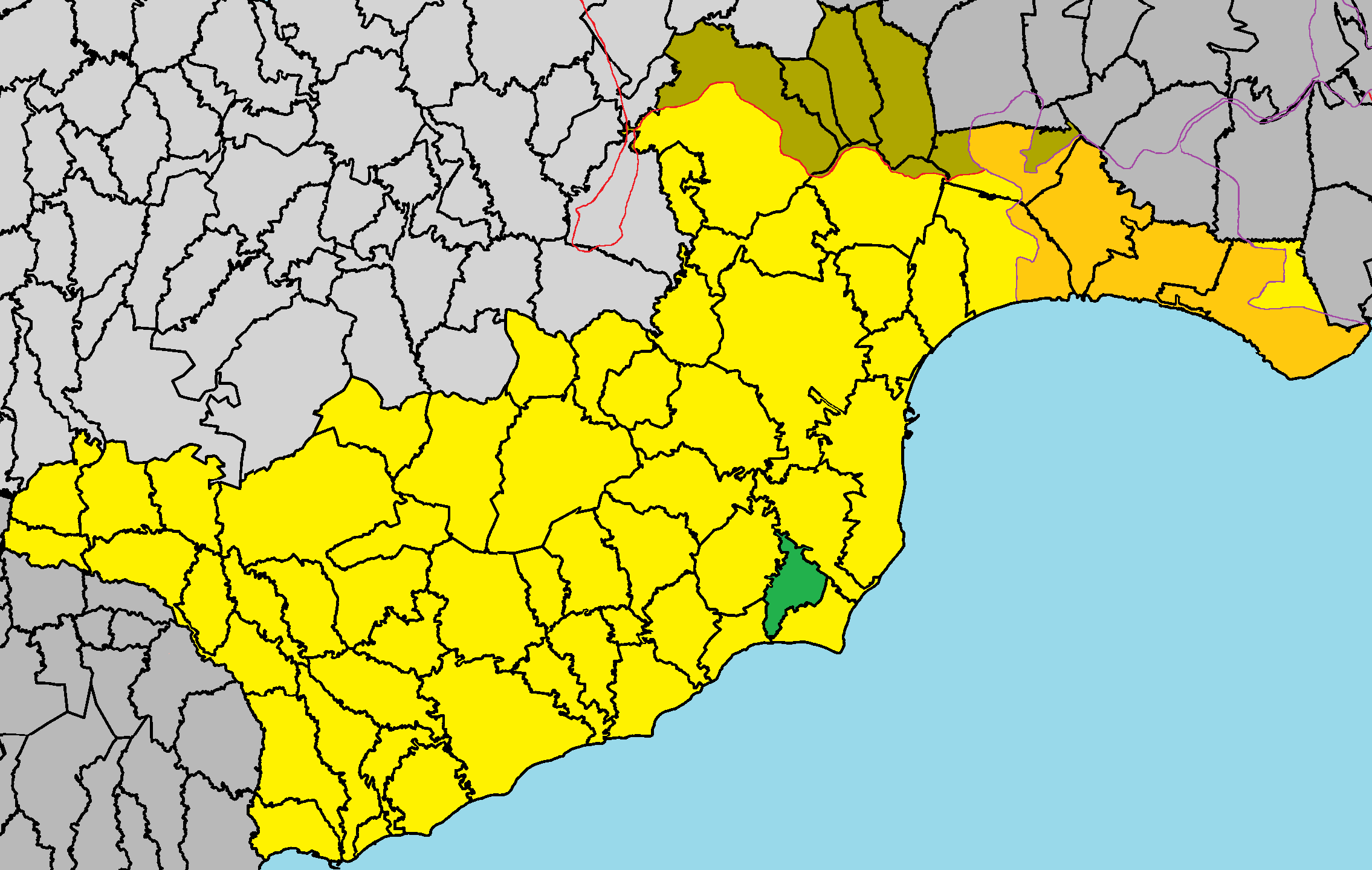 Kiti in Larnaca District.